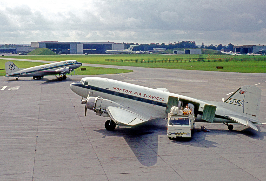 Douglas C-47B Dakota G-AMRA of Morton Air Services at London Gatwick Airport in June 1968